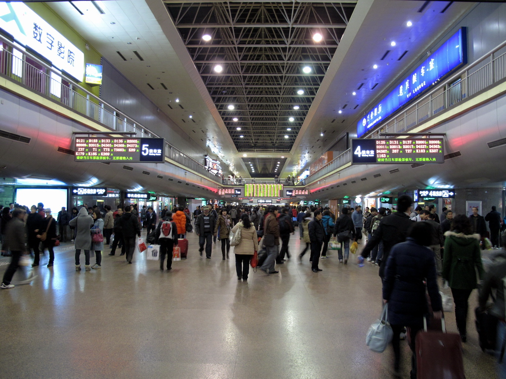 Beijing West Railway Station